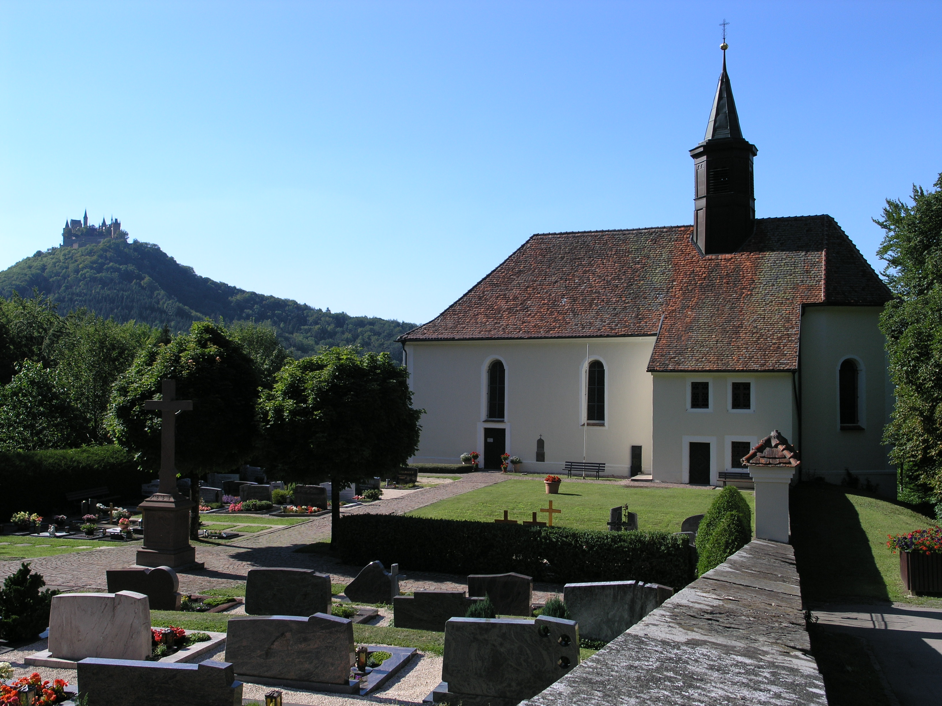 Church Maria Zell in Boll